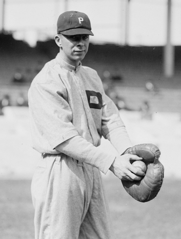 Bill Killefer, Philadelphia NL, at Polo Grounds, NY (baseball).